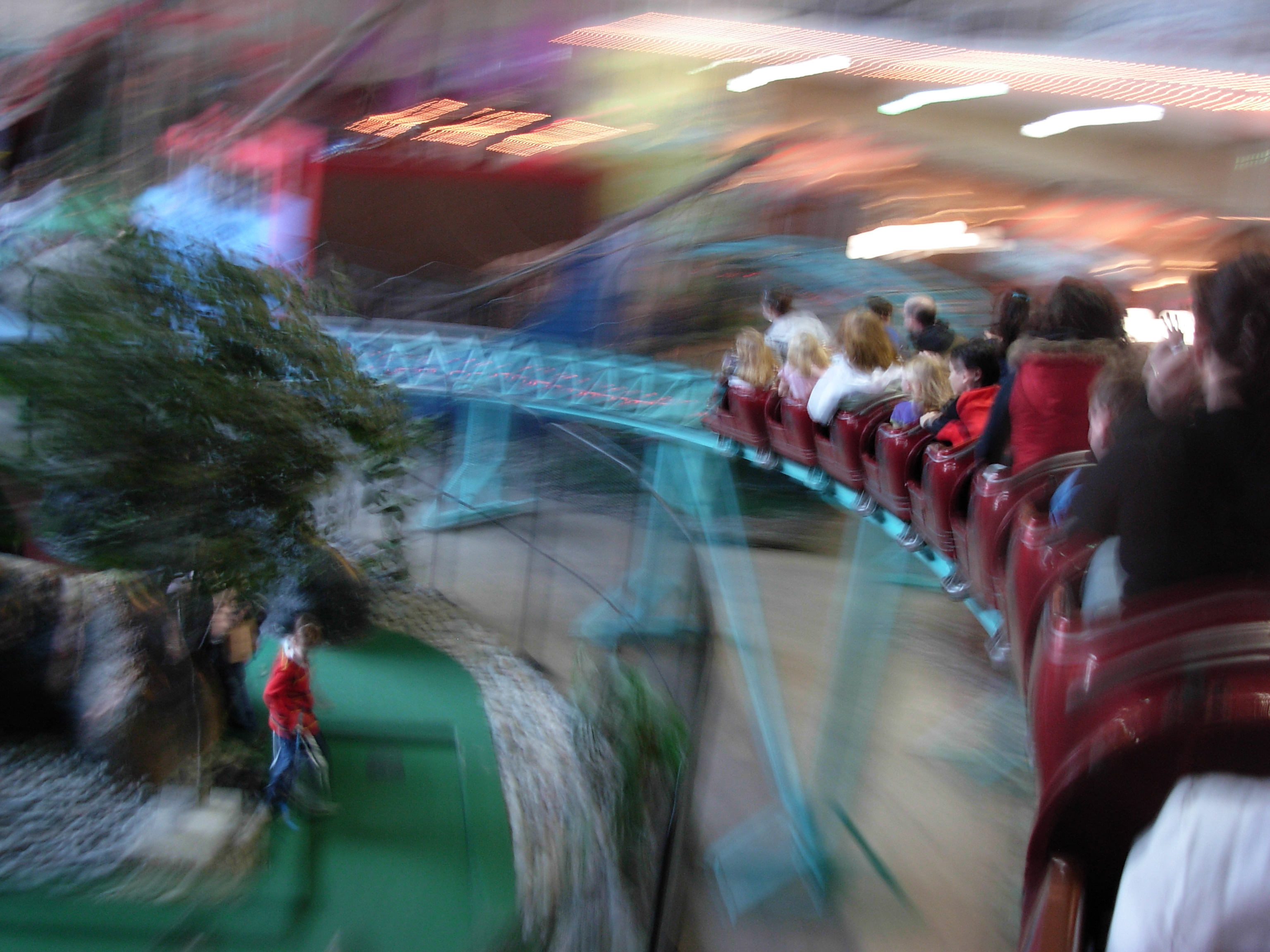 I took this picture in march 2007